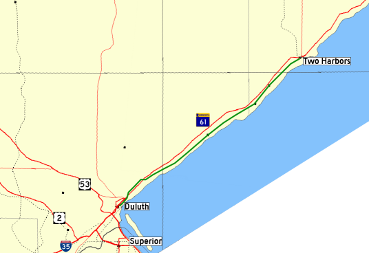 Map of the North Shore Scenic Railroad between Duluth and Two Harbors. Base image from the National Atlas; road signs from existing Wikipedia GFDL images; remainder self-drawn.